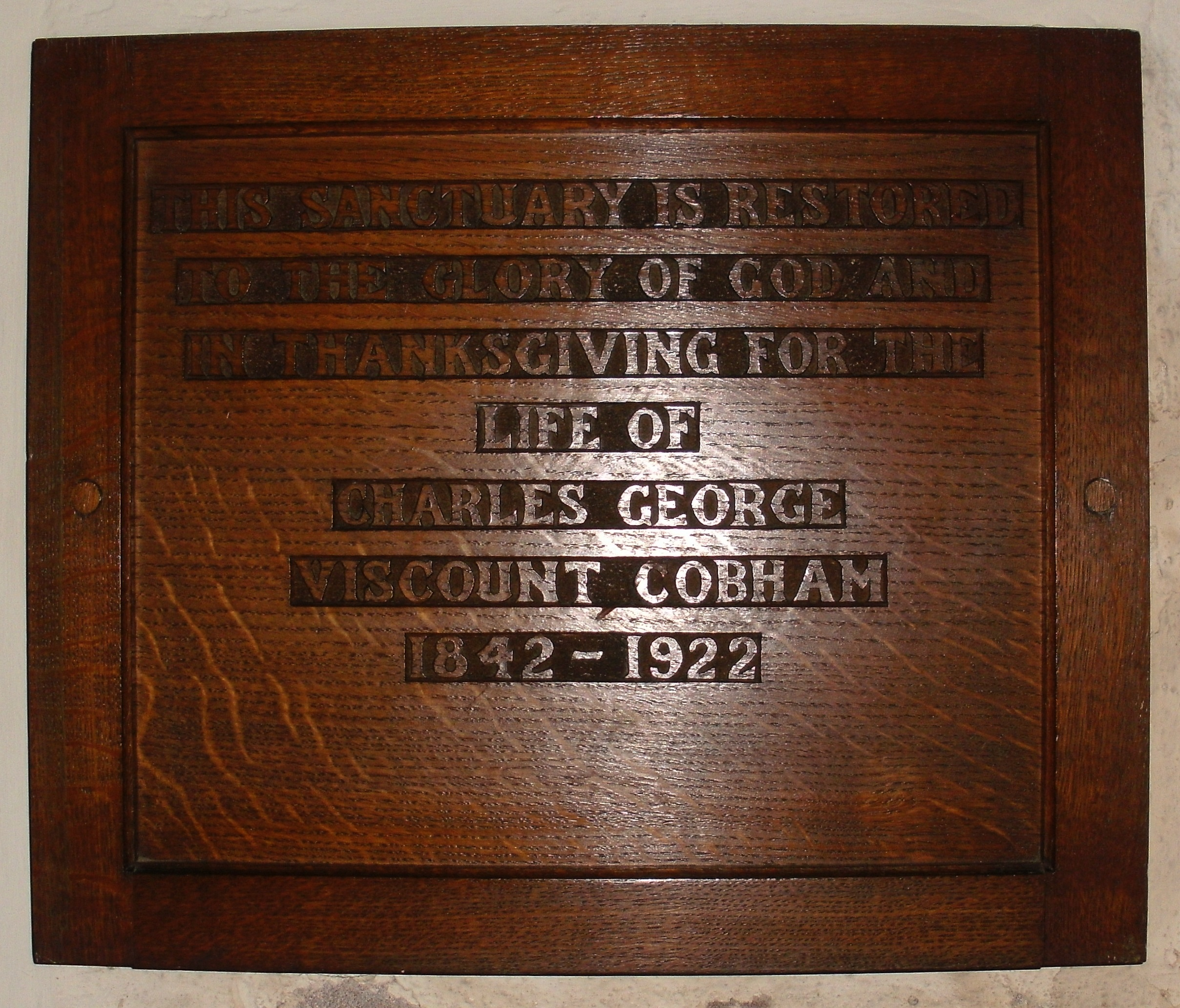 Hagley, Worcerstershire, St John the Baptist: Interior, wooden memorial tablet to Charles Lyttelton, 8th Viscount Cobham (1842–1922) in the Lady Chapel